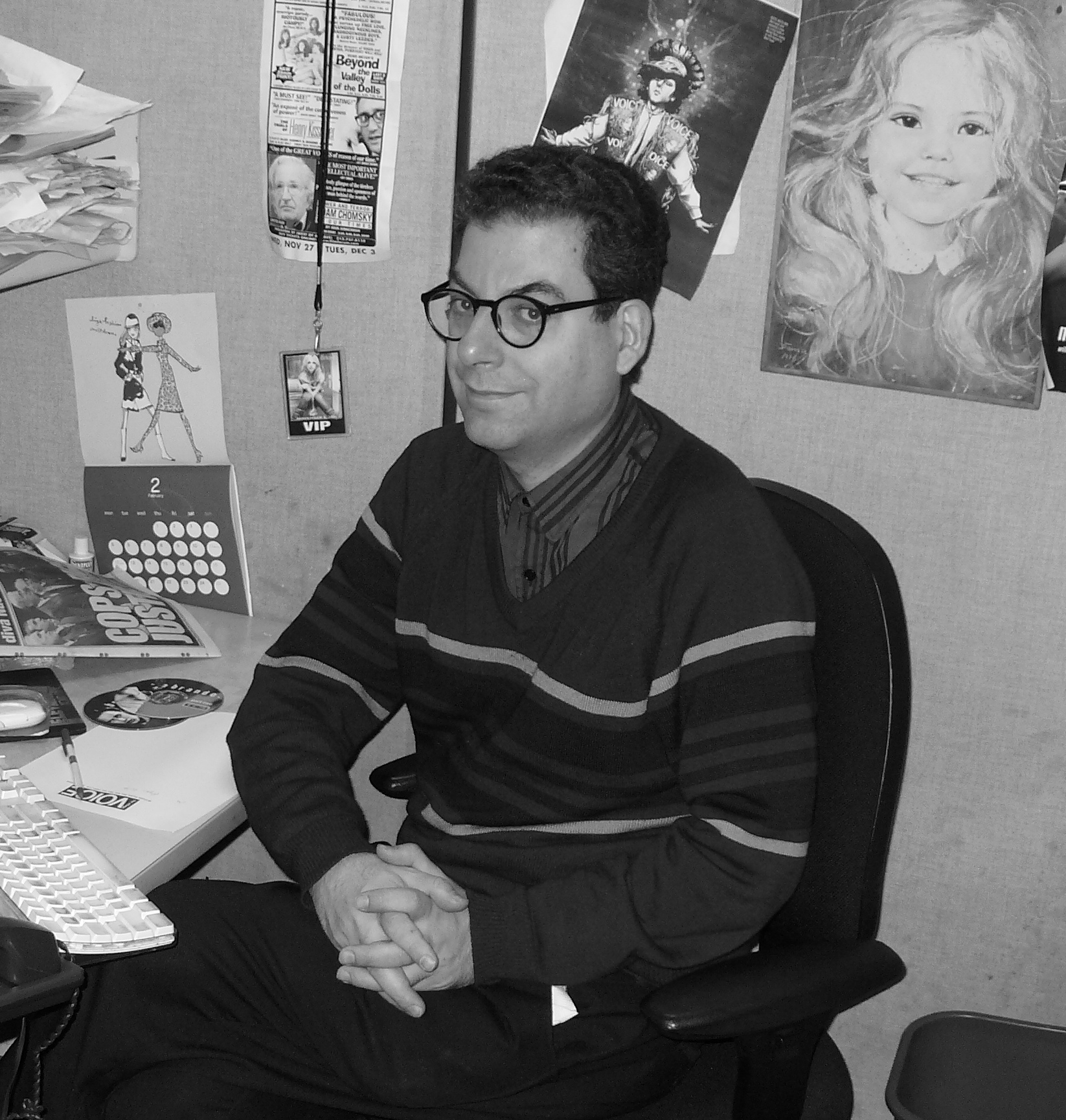 Michael Musto (cropped) by David Shankbone